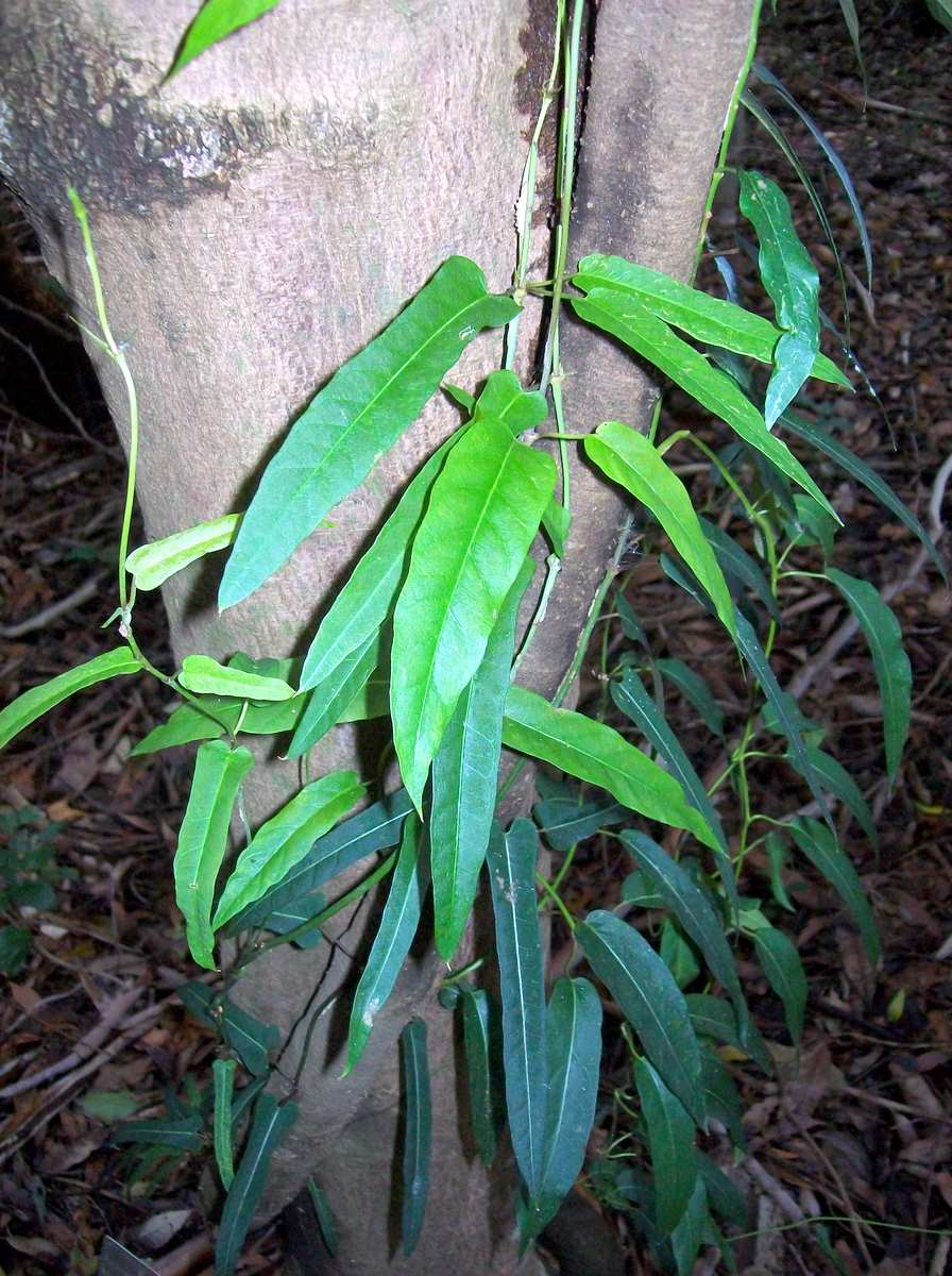 Parsonsia straminea at Coffs Harbour Botanic Gardens